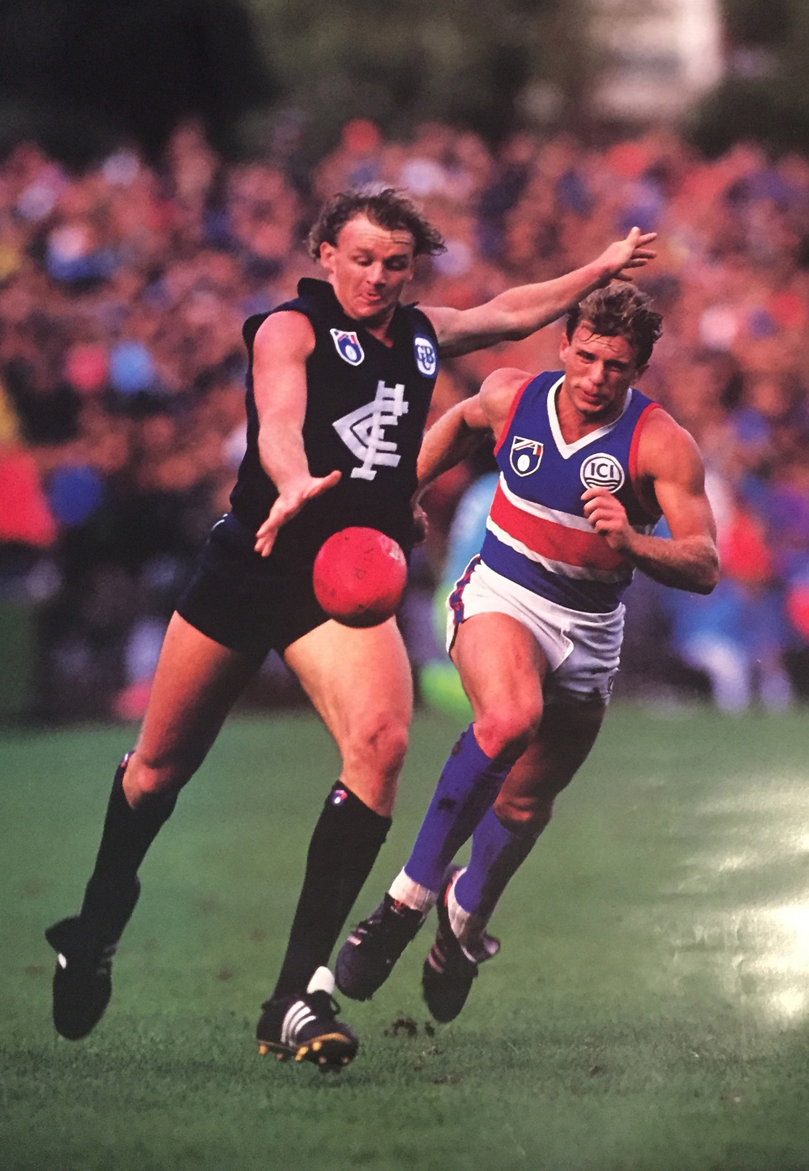 Dogs v Carlton